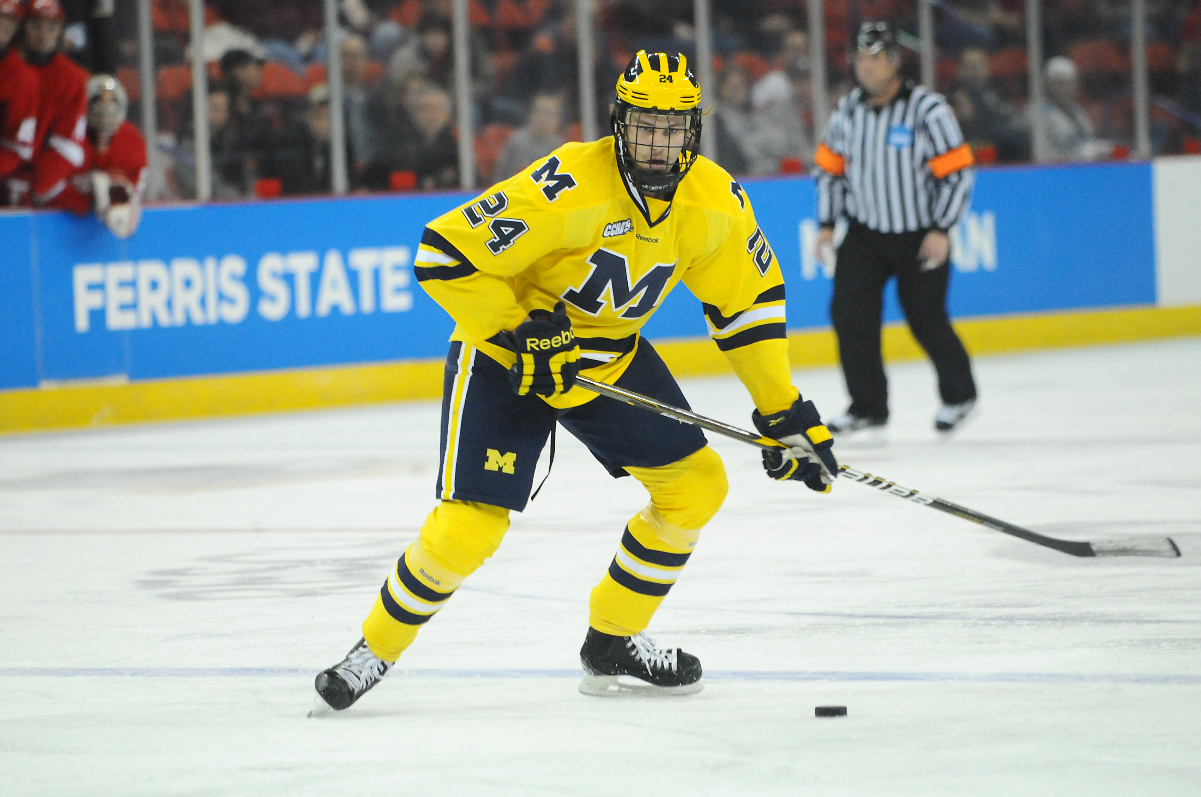 Jon Merrill #24 with University of Michigan. (Adam Glanzman/Daily)